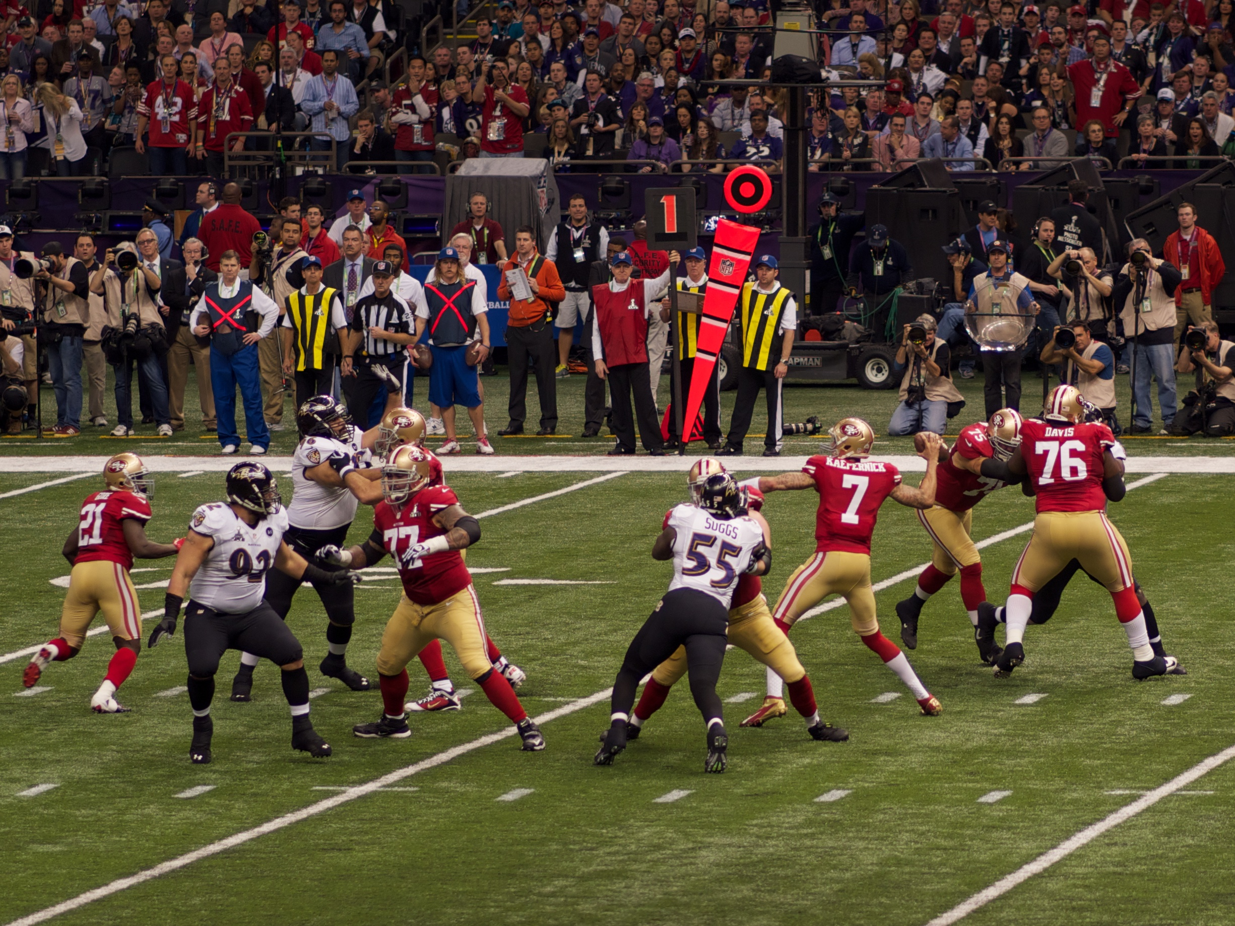 San Francisco 49ers quarterback Colin Kaepernick attempts a pass in Super Bowl XLVII.